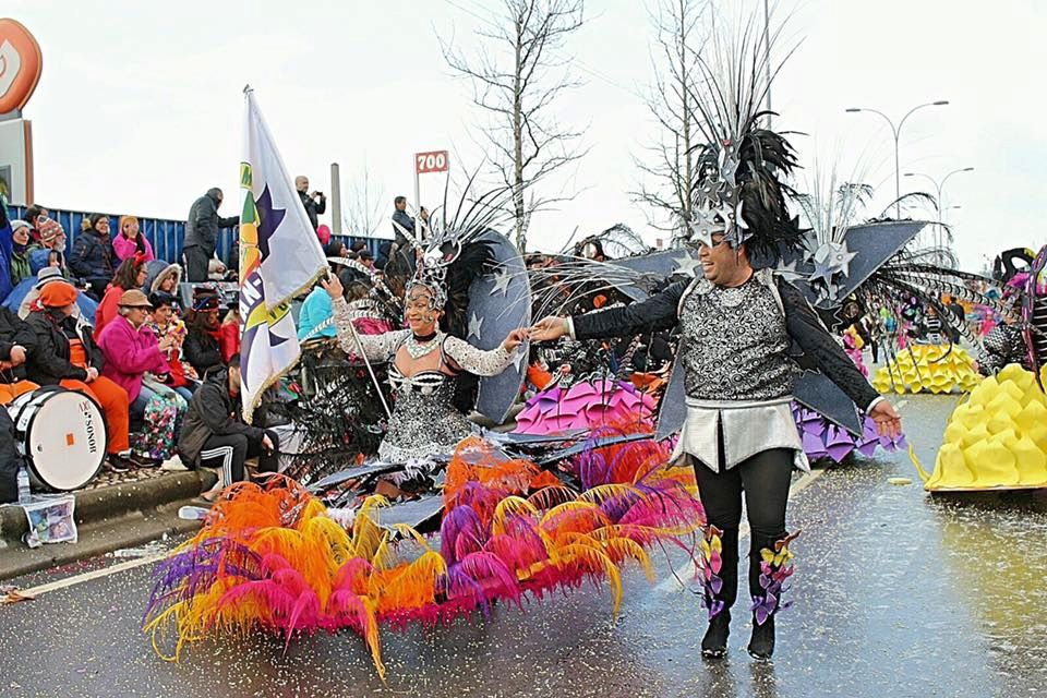 Carnaval de Ovar (Portugal)'s Kan-kans Flag Bearer